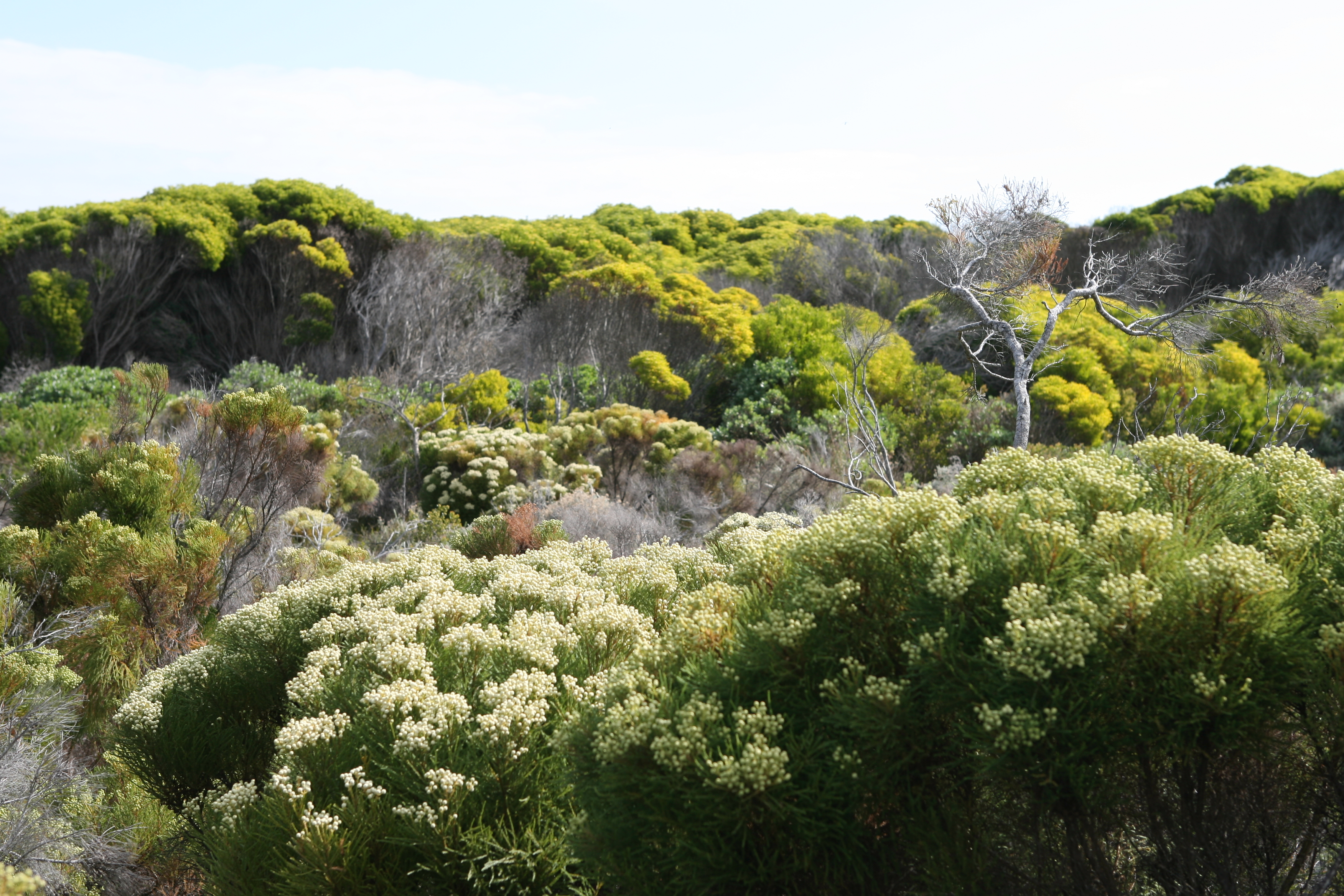 Some of the unique flora at the Cape Peninsula, South Africa